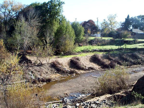 View of a portion of Robinson Creek in Boonville, California after completion of a stream restoration project (2003-2005).Robinson Creek Restoration Project. University of California, Davis. Project No. DWR P13-045